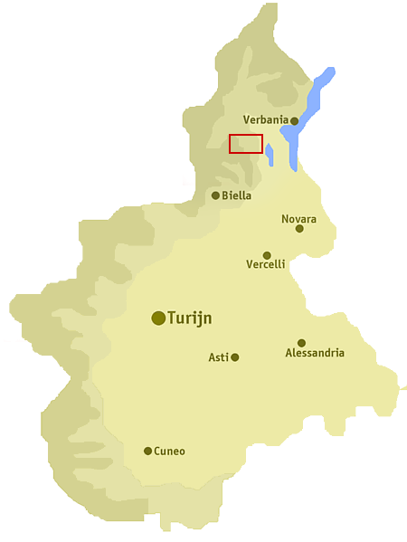 Position of the valley Val Strona